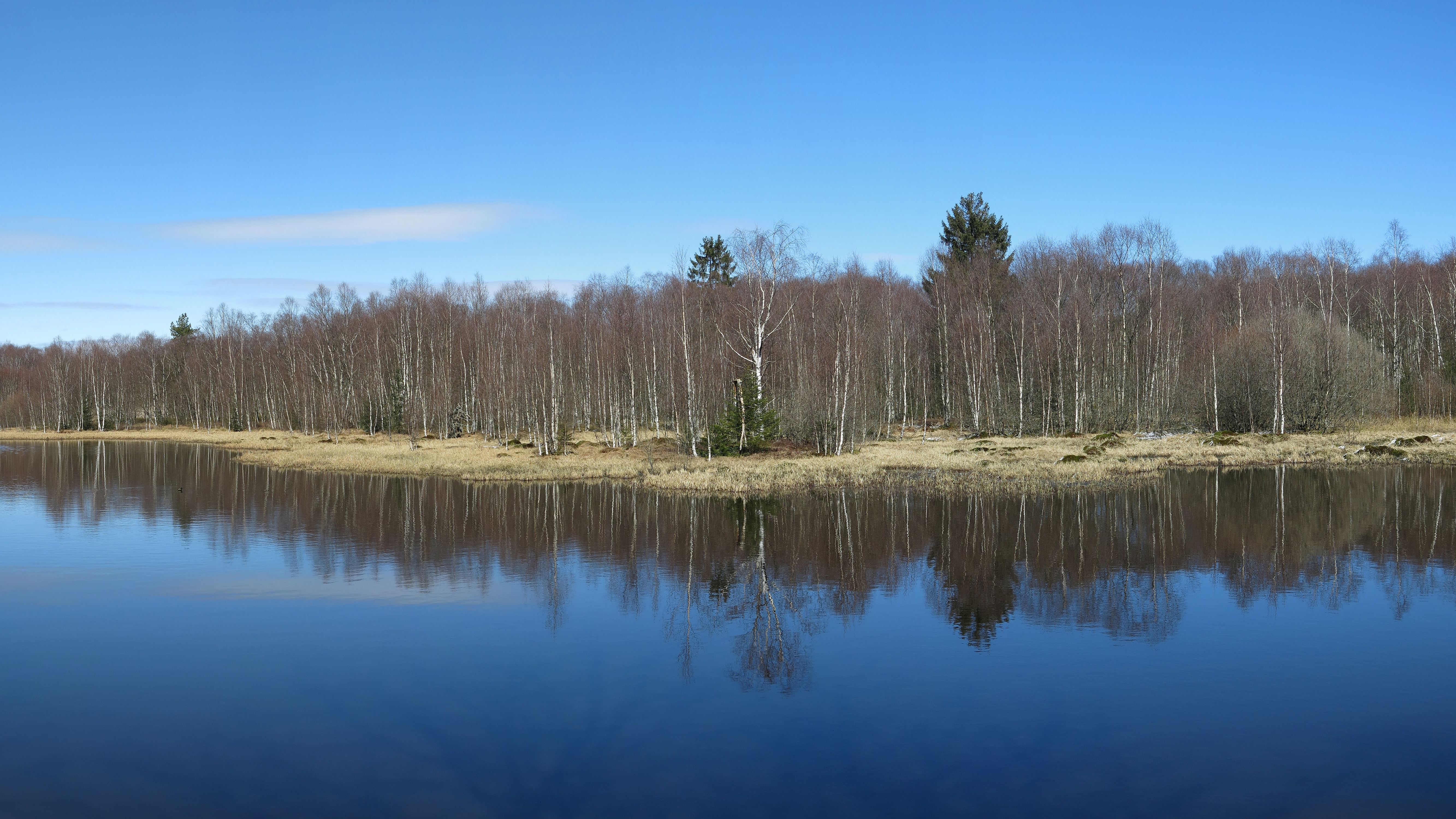 Pond in the Red Moor